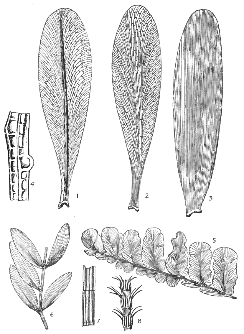 Figure from South African Geology - Schwarz - 1912 (Page 155) Fig. 42. — Karroo Plants 1, Glossopteris. 2, Gangamopteris. 3, Ncegyerathiopaia (Cordaites). 4, Vertebraria, the underground stem or rhizome of Glossopteris and Gangamopteris. 5, Neuropteridium validum, Seward. 6, Schizoneura gondwanensis, Feistmantel. 7, Stem of Schizoneura. 8, Phyllotheca indica, Bunbury.